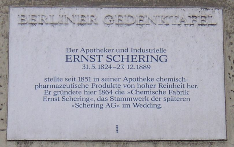 Berlin memorial plaque for Ernst Schering (Müllerstraße 170) in Berlin-Wedding, Germany